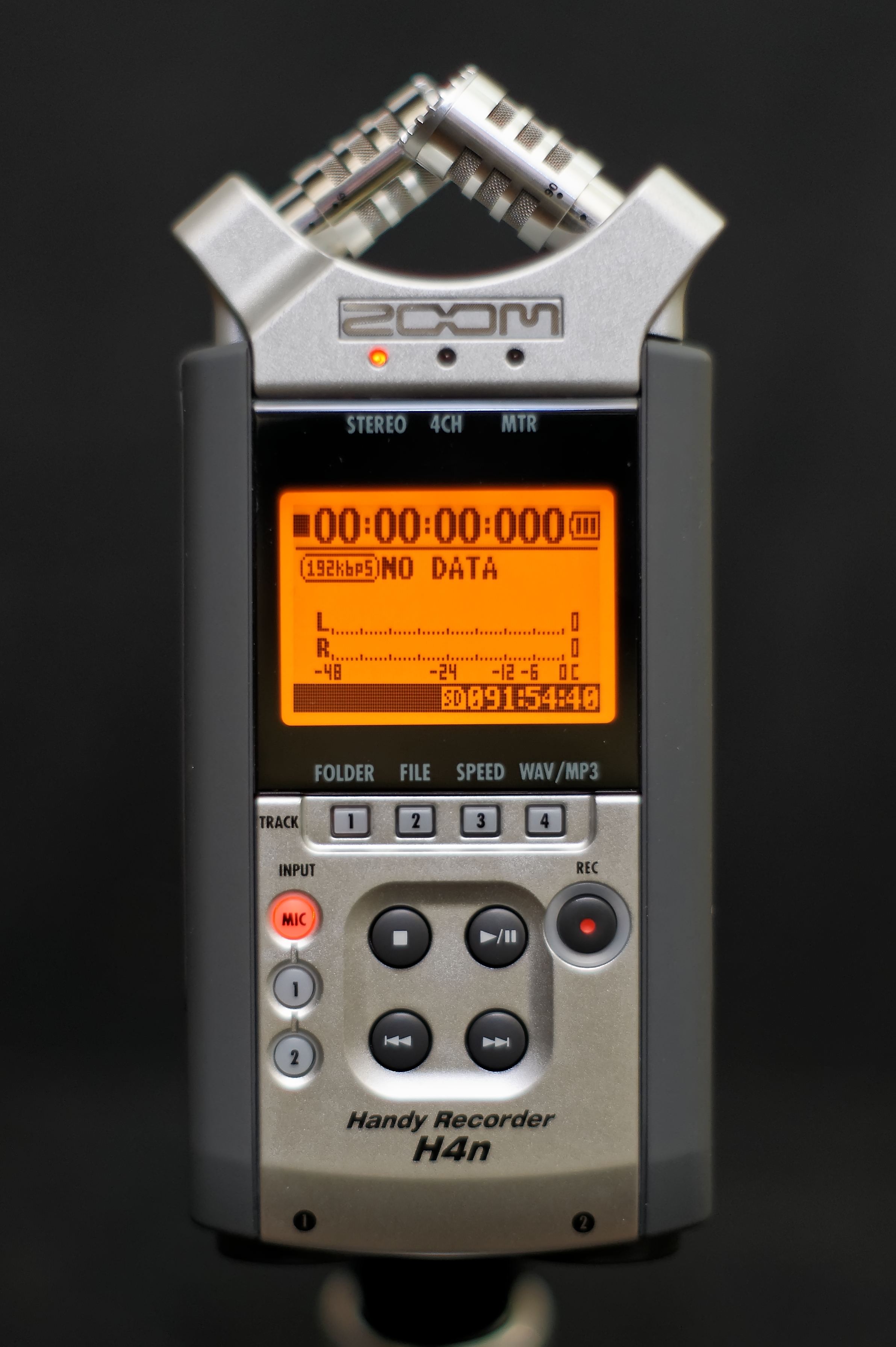 I've been playing with the video function on my DSLR. The camera's built-in microphones are what industry insiders refer to as 'crap'. I have some vague ideas of a microphone solution, but the only option on the camera is plug-in-power and there is absolutely zero mic control in the camera. The Zoom H4n gives me options for 1/4" or XLR mics with 24v or 48v phantom (or no) power as well as 1/8" with or without plug-in-power. I can also apply filters and mic gain adjustments. By running a cable from the output of the Zoom to the mic input of the camera, I hope to get all the pre-processing of the Zoom on the camera's video. The built-in mics of the Zoom aren't great, but a definite improvement over the camera mics.